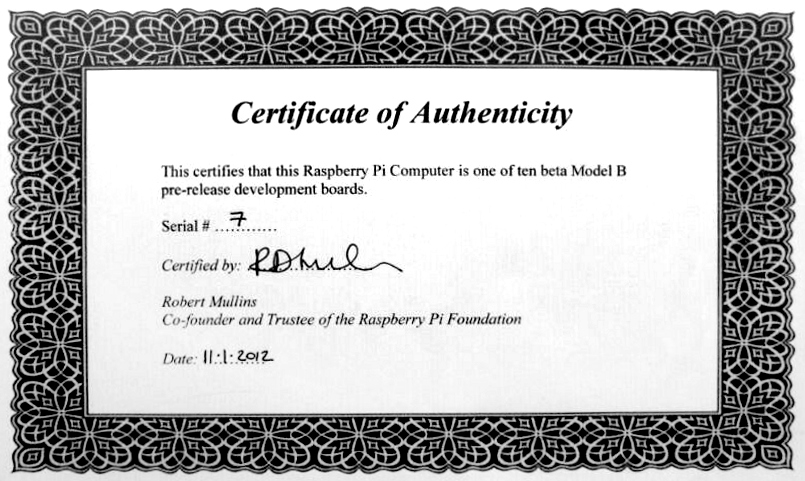 Raspberry Pi #7 certificate of authenticity